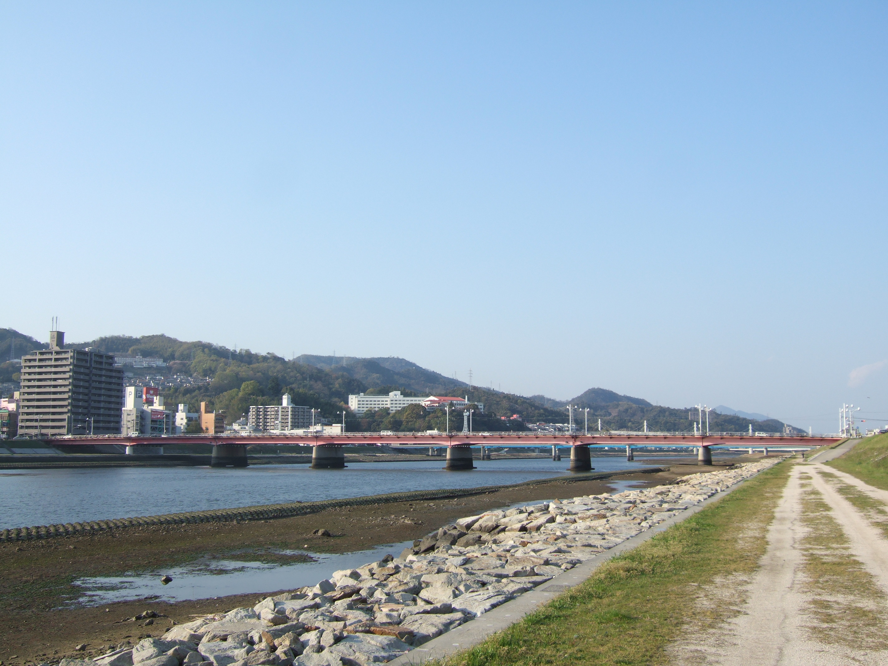 New Koi Bridge laid in Ohta River Diversion Cannel